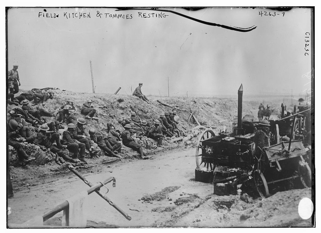 Bain News Service,, publisher. Field kitchen & Tommies resting [between ca. 1915 and ca. 1920] 1 negative : glass ; 5 x 7 in. or smaller. Notes: Title from data provided by the Bain News Service on the negative. Forms part of: George Grantham Bain Collection (Library of Congress). Format: Glass negatives. Repository: Library of Congress, Prints and Photographs Division, Washington, D.C. 20540 USA, General information about the Bain Collection is available at Higher resolution image is available (Persistent URL): Call Number: LC-B2- 4263-7